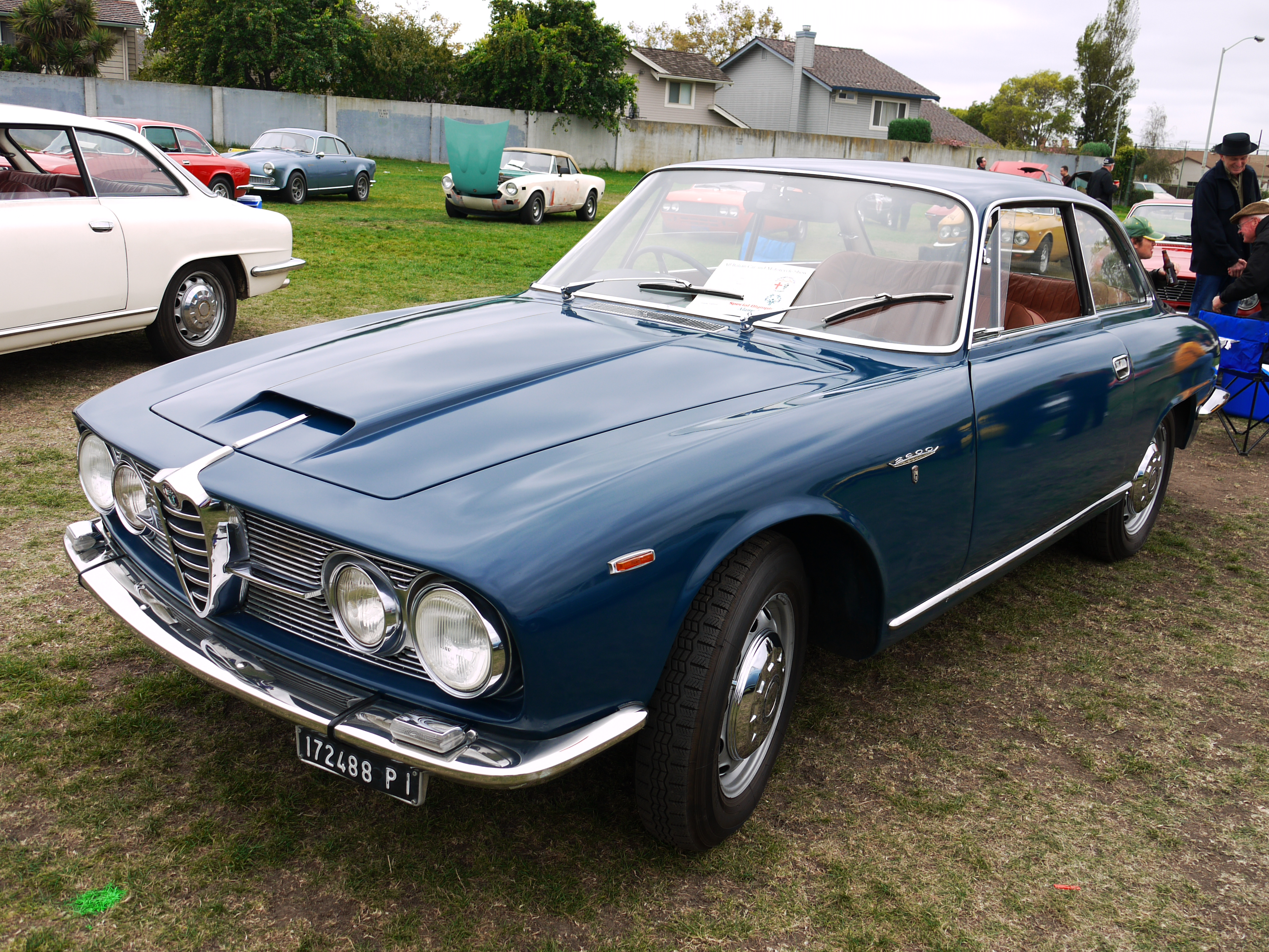 Alfa Romeo 2600 at 2009 Alameda All Italian Car & Motorcycle Show